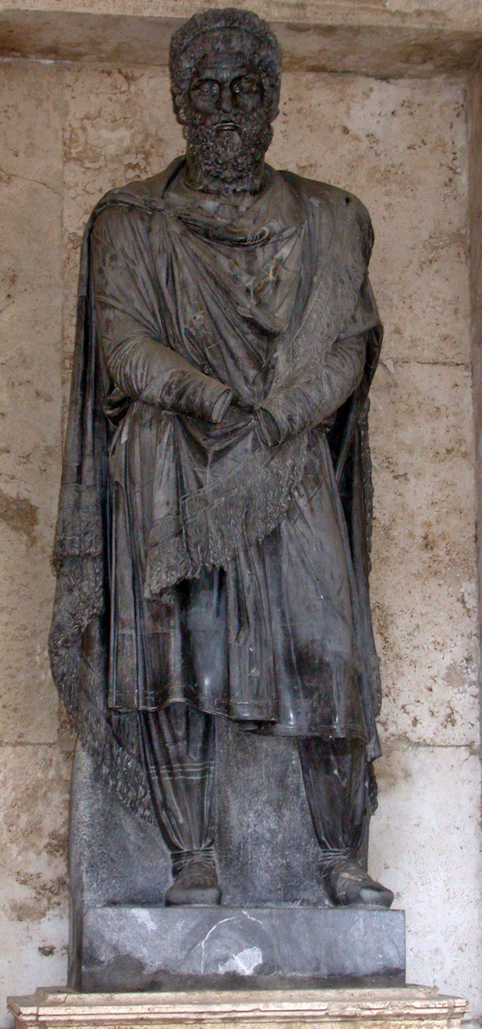 Statue of a Dacian in grey marble in the court of Conservatori Palace in the Capitoline Museums. Taken on november 2005